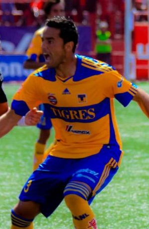 Tigres player Juninho